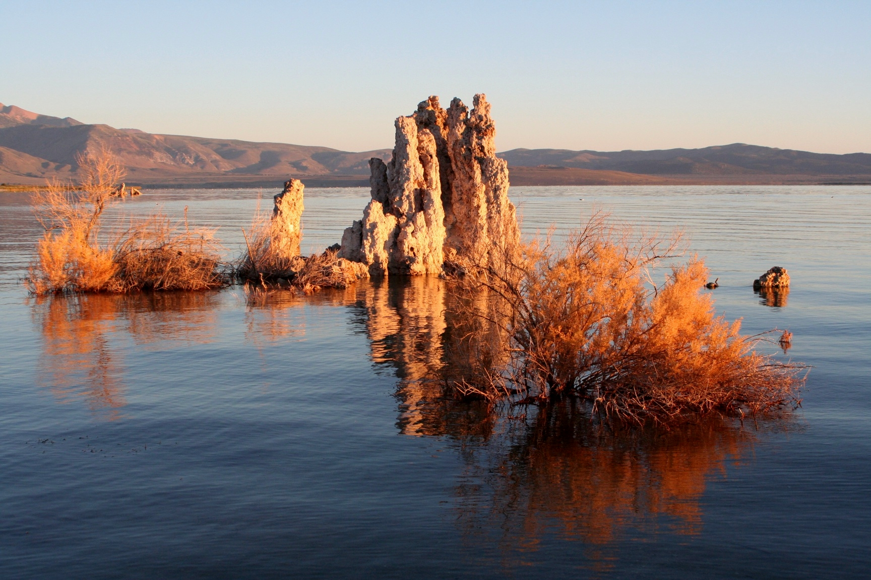 Tufa towers in Mono Lake are calcium carbonate spires and knobs formed by interaction of freshwater springs and alkaline lake water. Tufa can reach heights of 30 ft. (9.1m). Mono Lake is located is Eastern Sierra Nevada and covers about 65 square miles. Throughout the lake's existence of over 1 million years, the steady evaporation of freshwater originally coming from Eastern Sierra streams has left the salts and minerals behind so that the lake is now about 2 1/2 times as salty and 80 times as alkaline as the ocean.